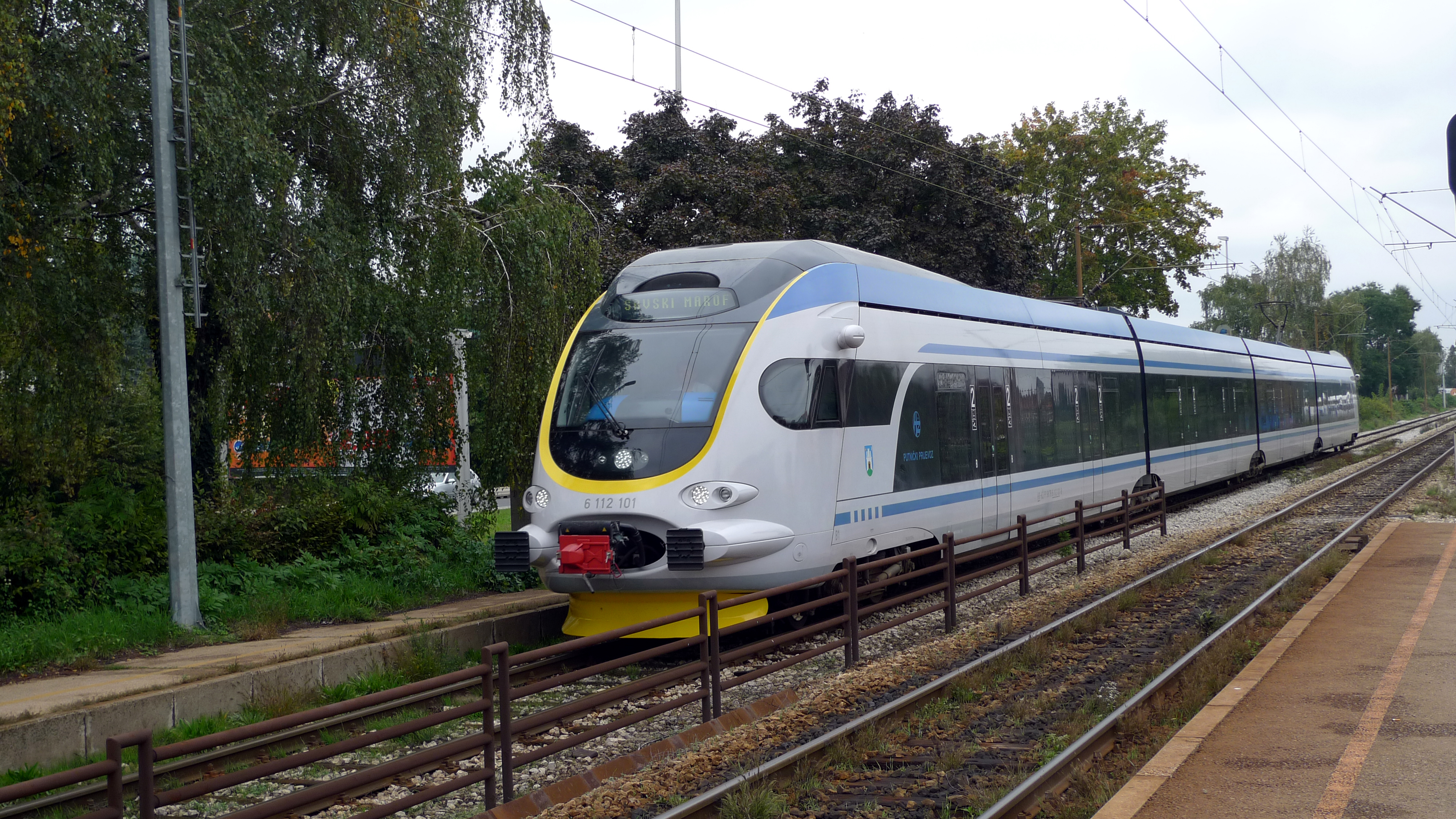 HŽ Class 6112 in Podsused.